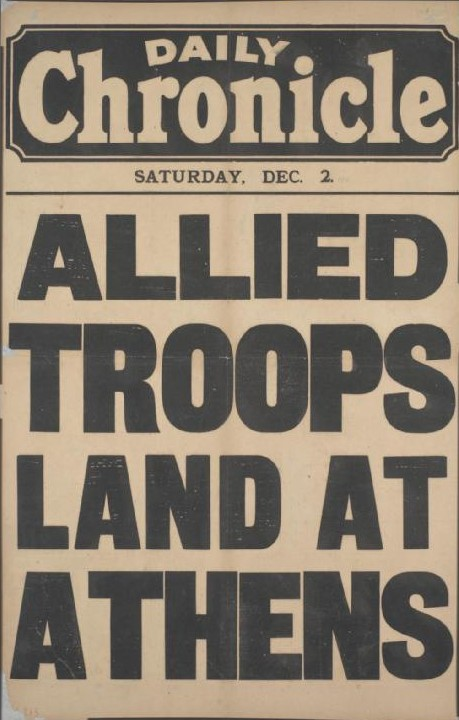 Placard for the Daily Chronicle : "Allied Troops Land at Athens" NOTE : See Noemvriana.